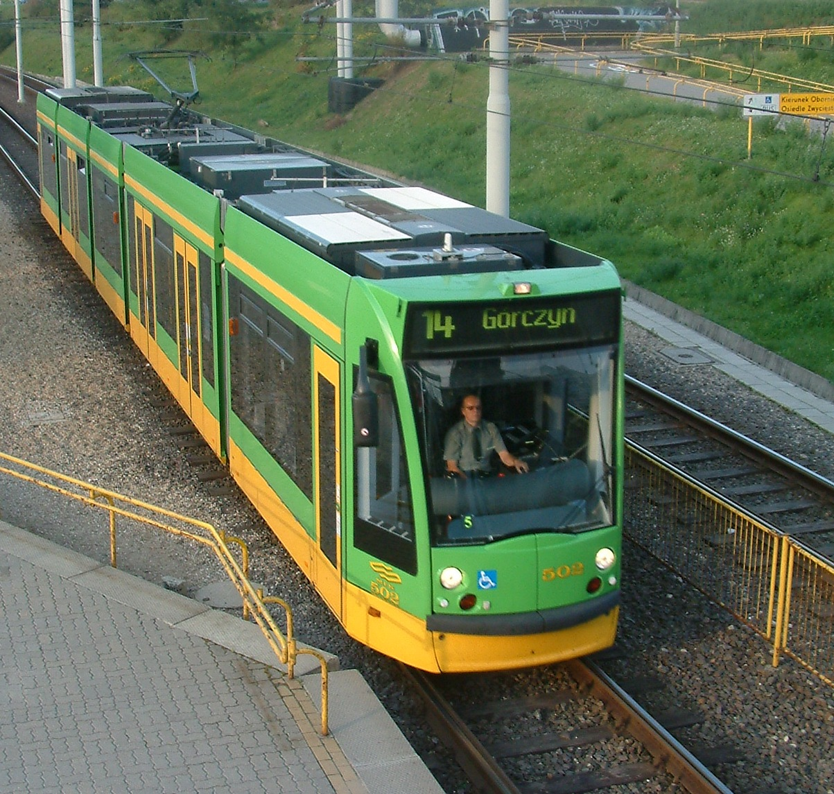 Siemens Combino approching to Aleje Solidarności station on PST line in Poznań